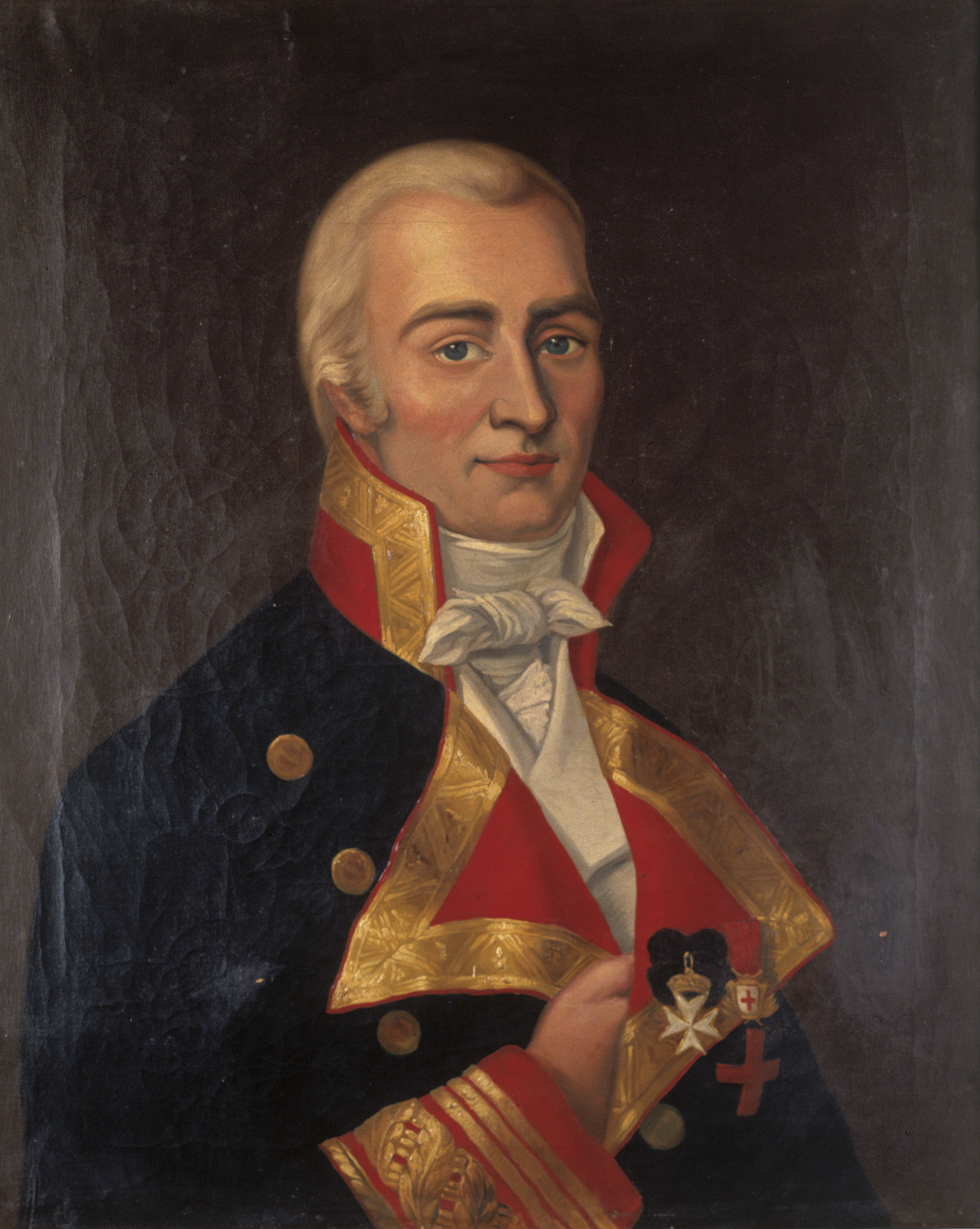 Depicted person: Santiago de Liniers (1753–1810).